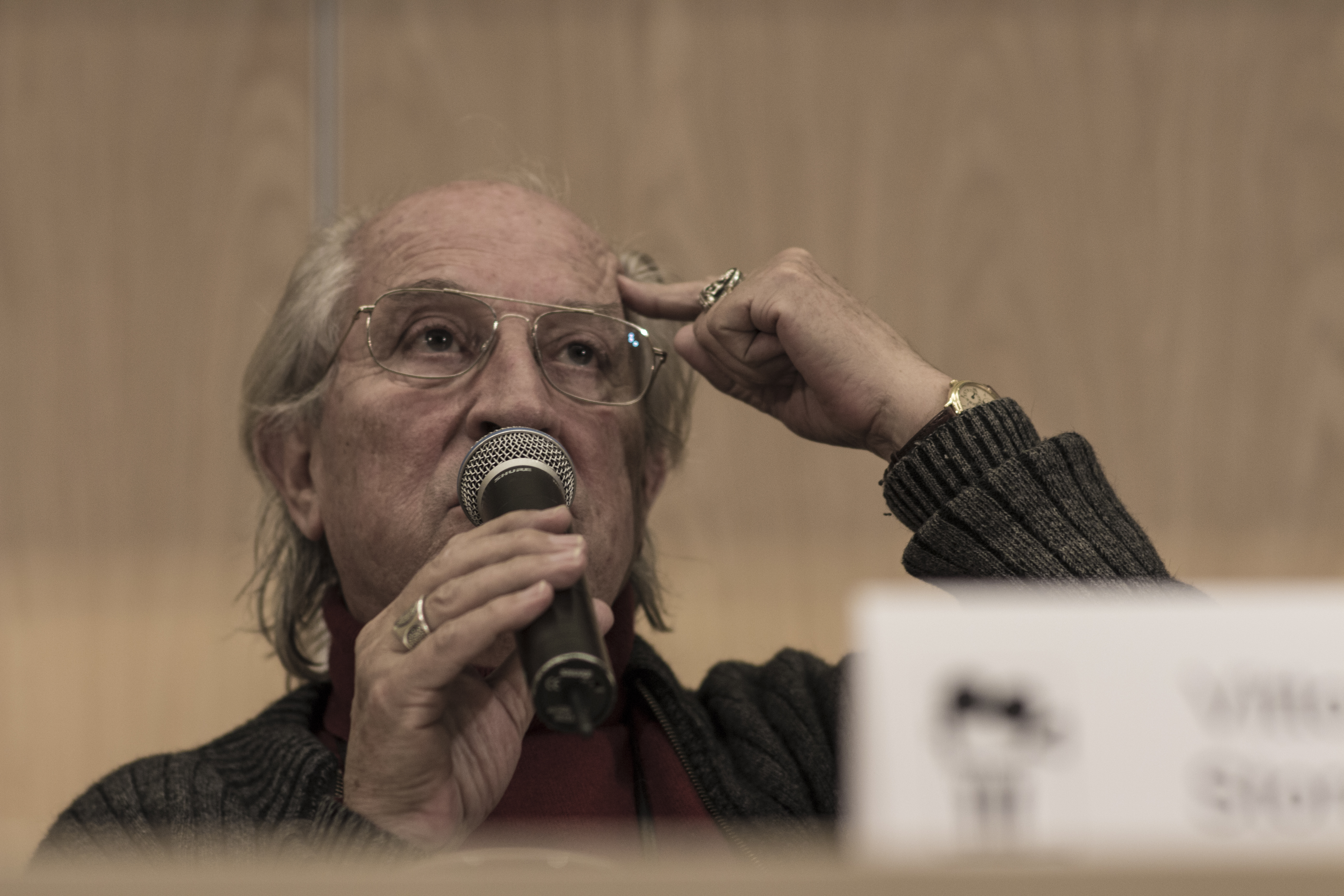 Vittorio Storaro at Camerimage 23 in 2015 talking about Color in Culture